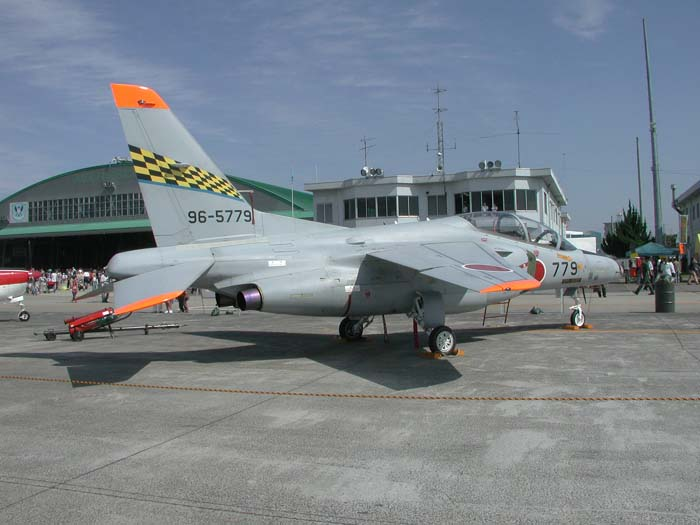 Kawasaki T-4 of the JASDF displayed at JASDF Komaki AB